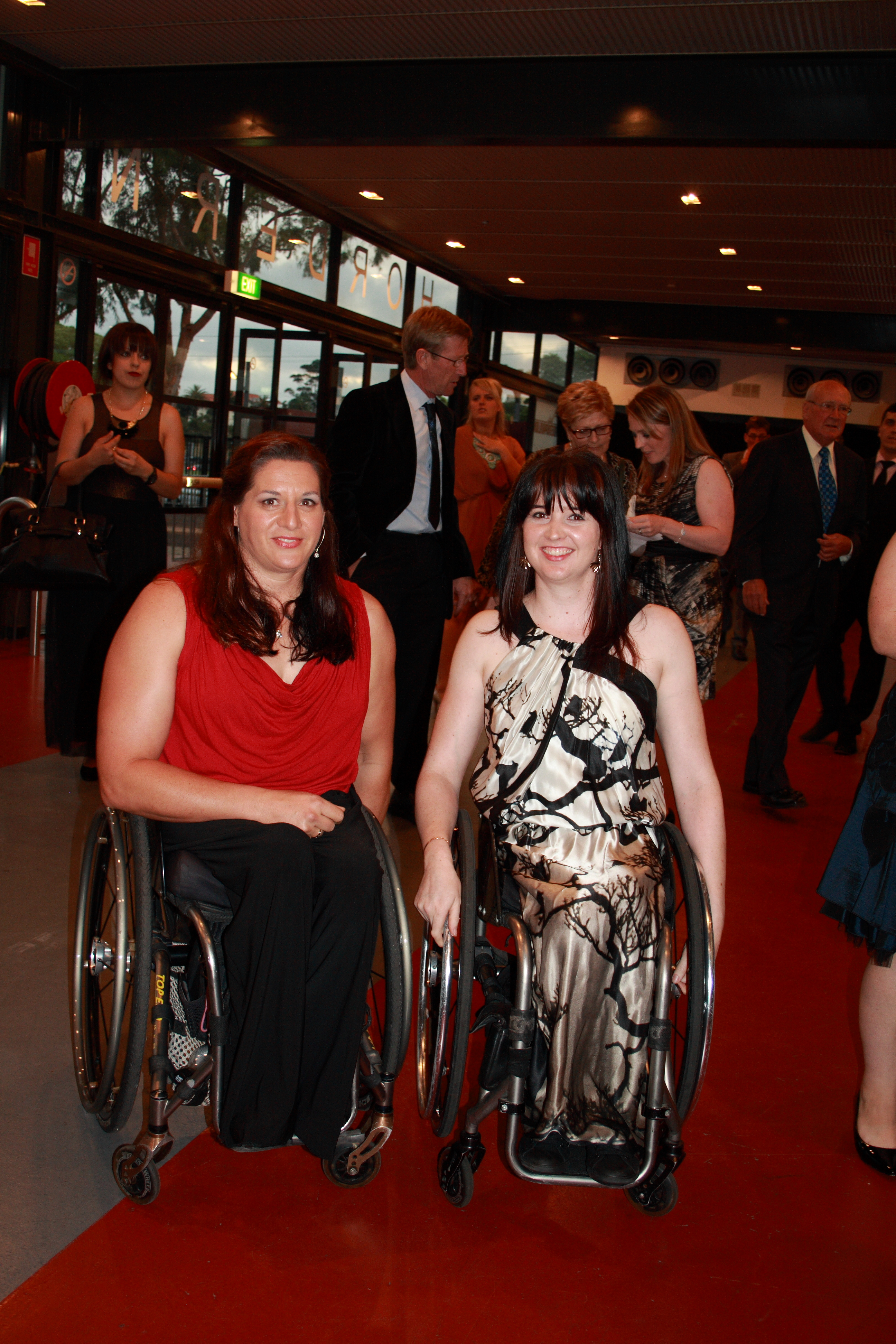 Australian Paralympian of the Year 2012 ceremony at the Hordern Pavilion, Sydney, Australia.